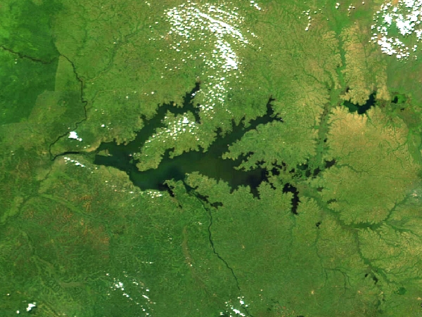 Lake Kyoga (cropped from a 2002 NASA satellite picture)